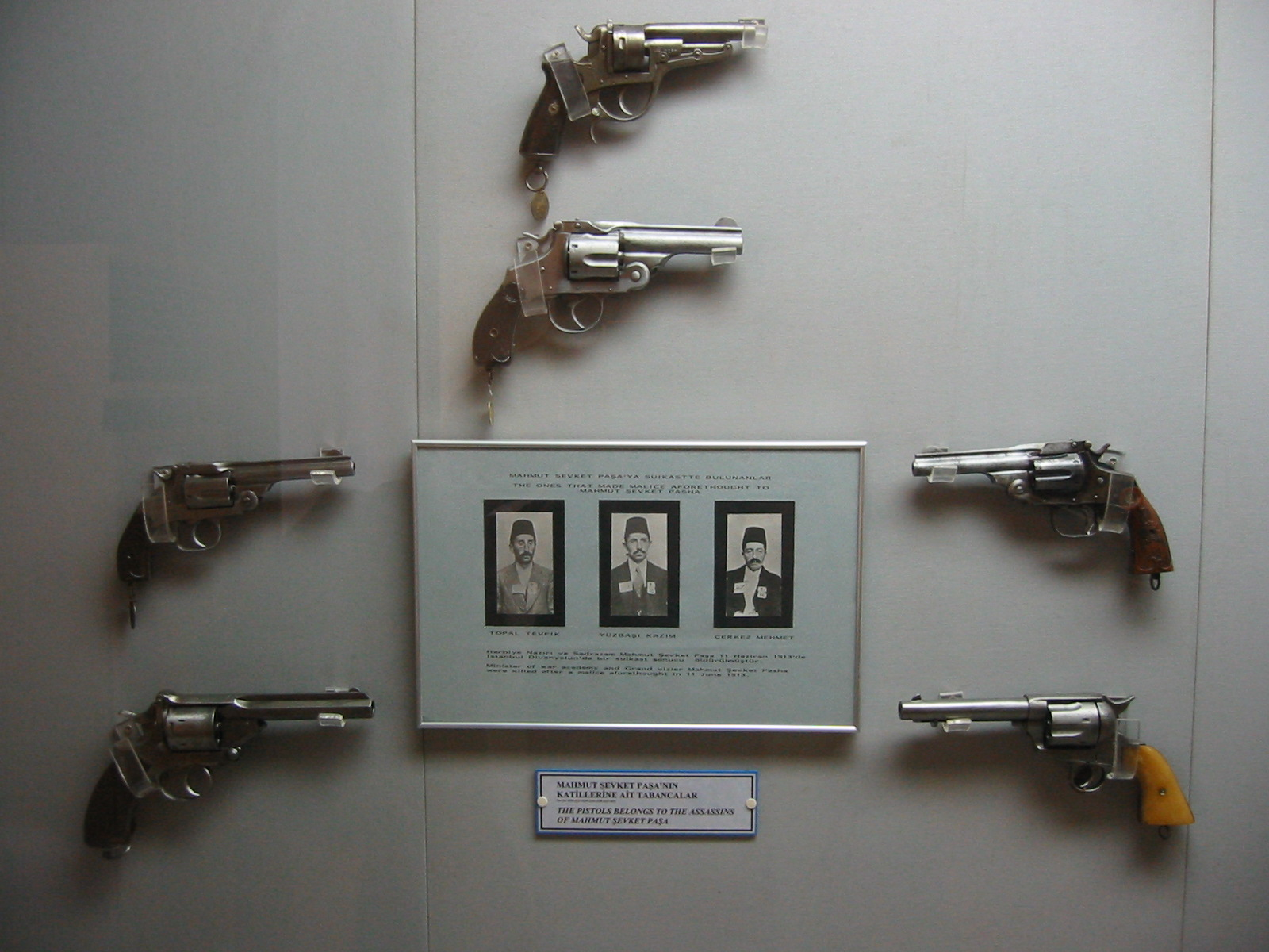 Display of pistols used by the killers of Mahmud Shevket Pasha, Ottoman Grand Vizier.